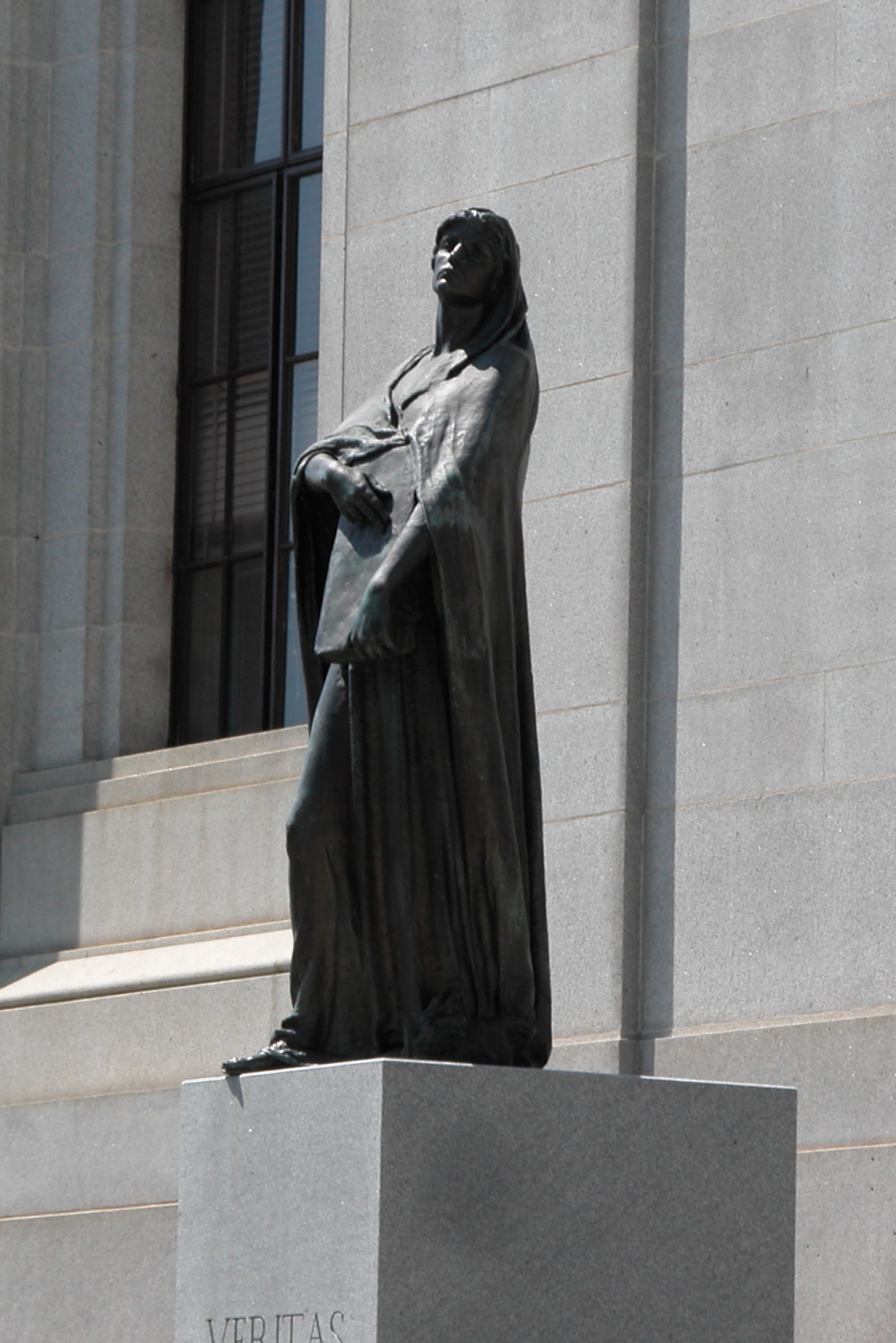 Statue of Truth outside the Supreme Court of Canada in the capital City, Ottawa in the province, Ontario.